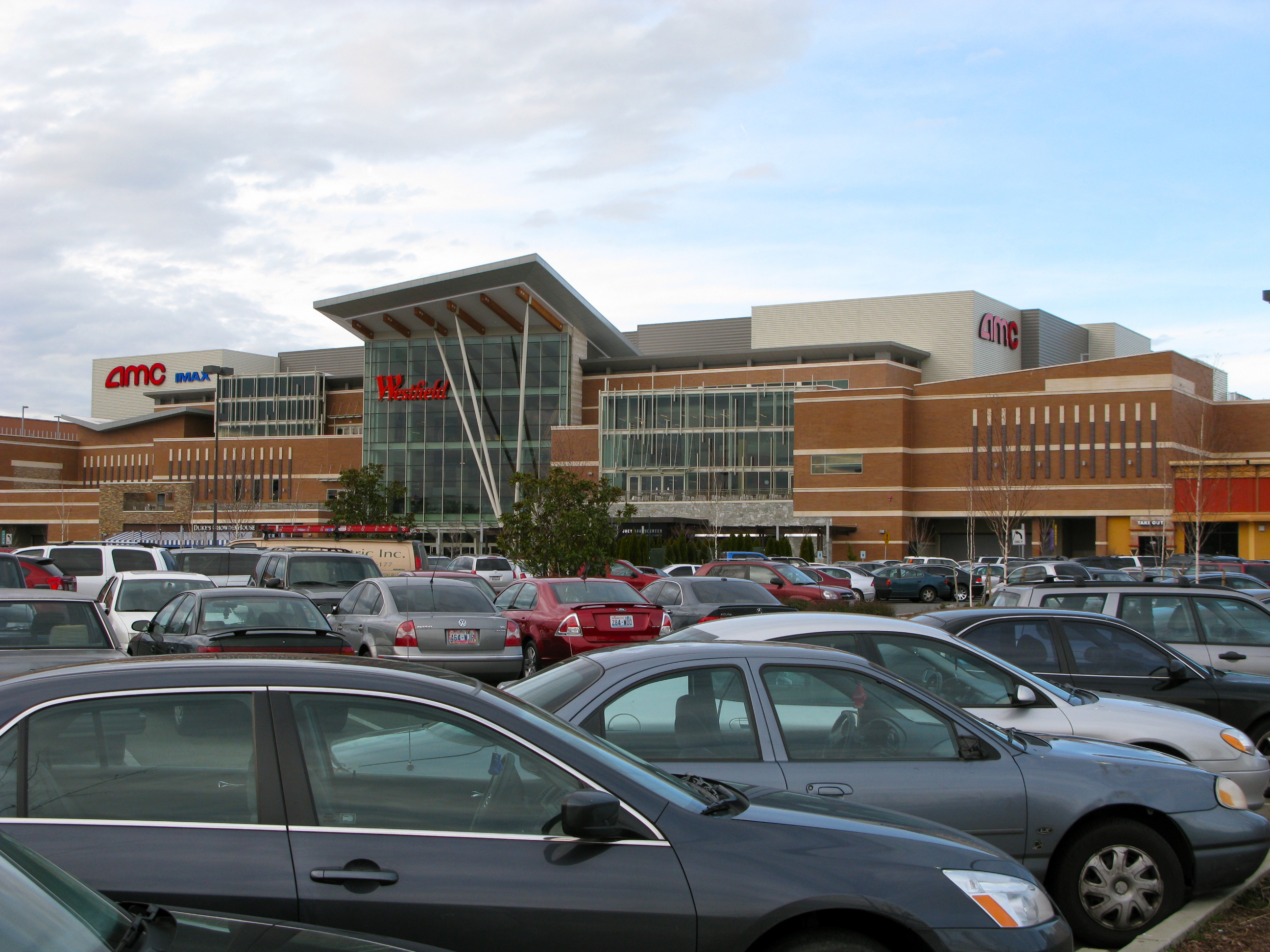 Westfield Southcenter remodeled